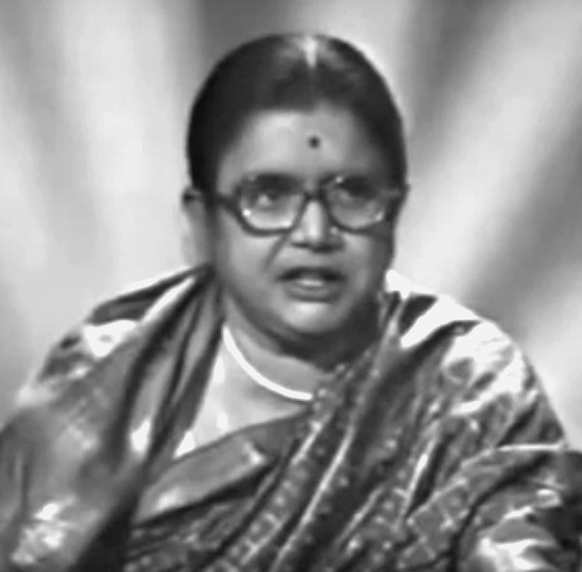 Pratima Bandyopadhyay